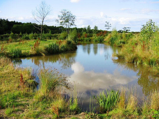 Coarse Fishing Pond at Green Lane Farm One of three Coarse Fishing Ponds at Green Lane Farm.